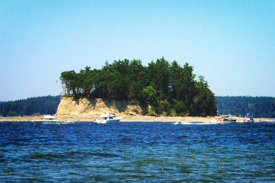 Cutts Island (also known as Deadman's Island)